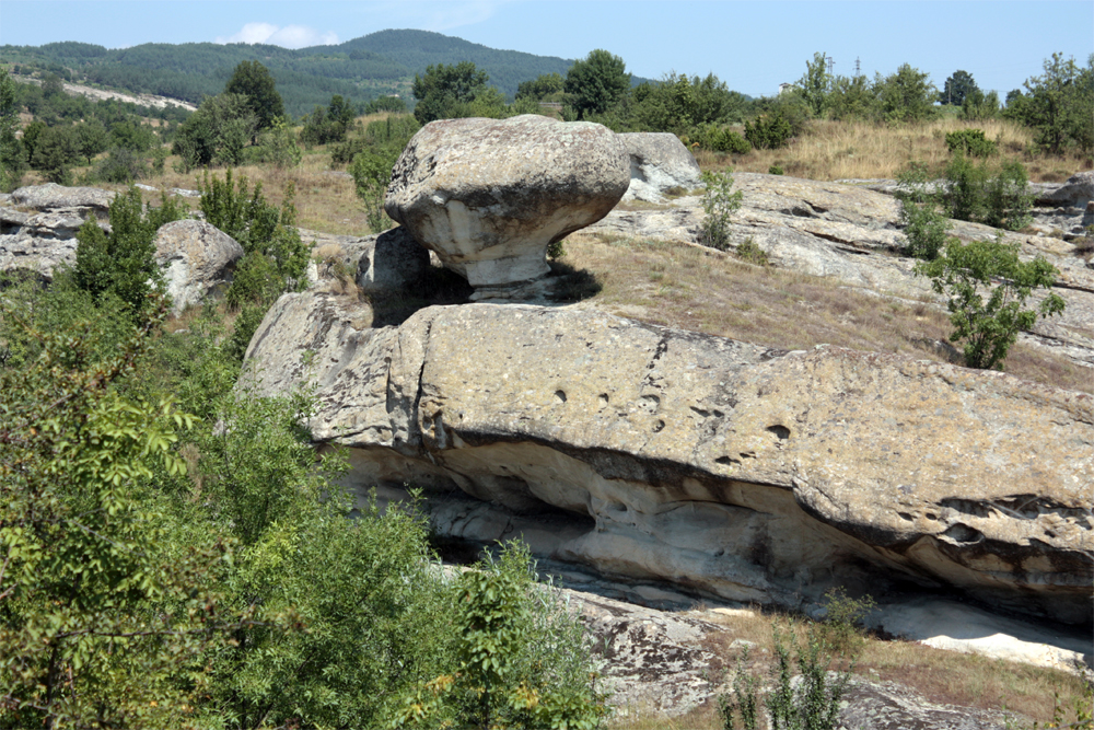 "Mushroom" rocky formations in Dobromirtsi village